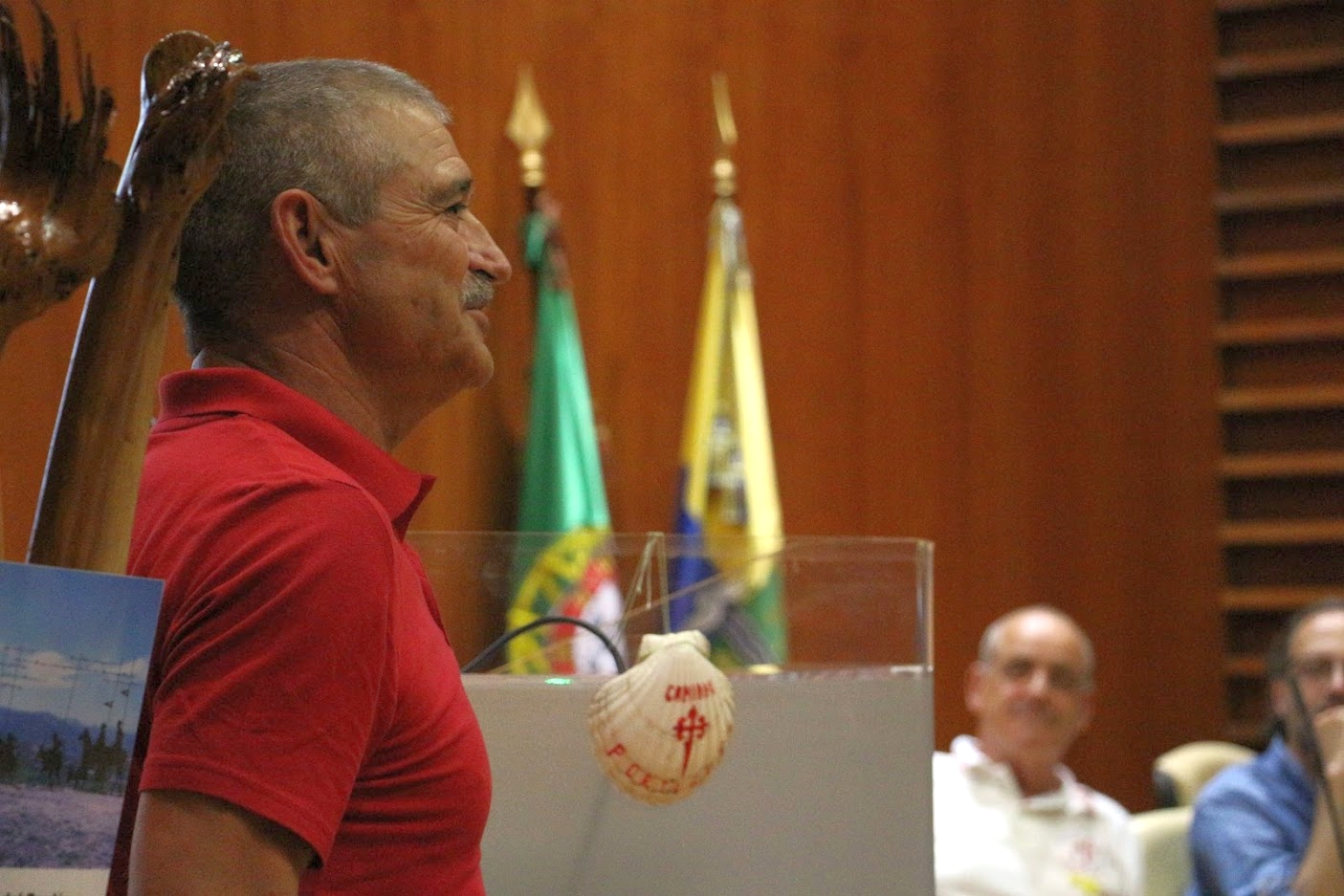 Portuguese writer Agostinho Leal, during a book presentation.